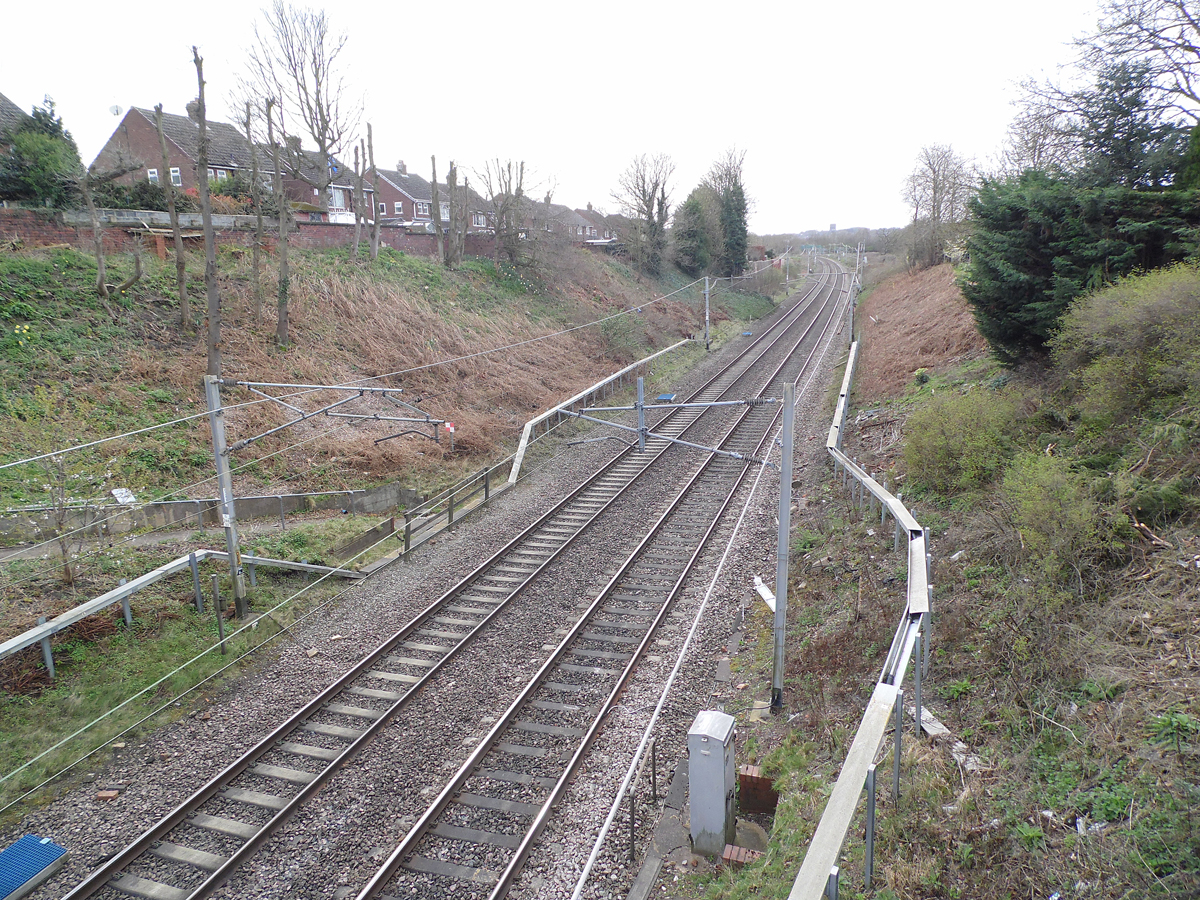 Almost completely eradicated, however some platform bricks do remain, as well as the access path down.